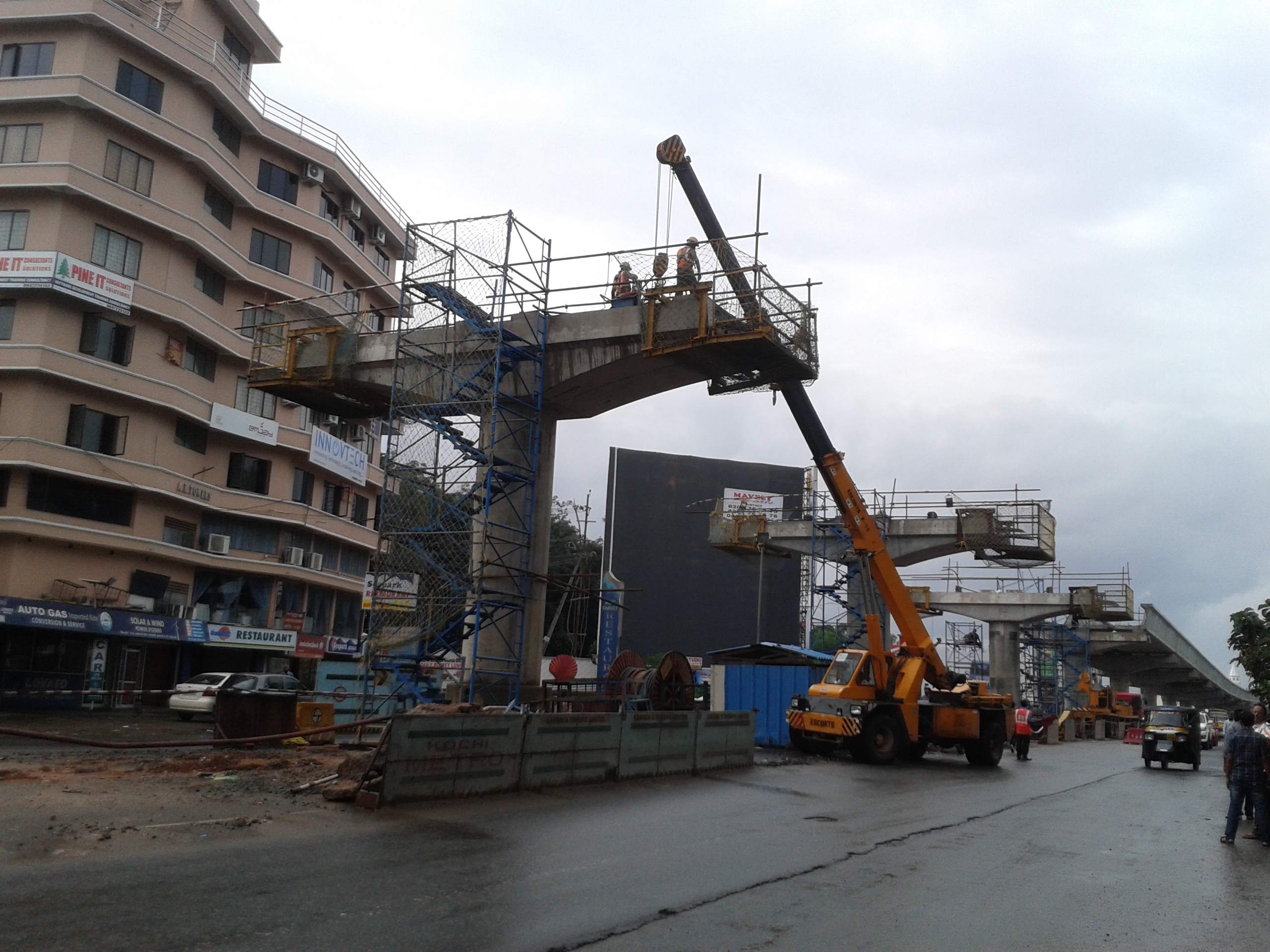 Kochi metro during construction. Photo taken from South Kalamassery bus stand.